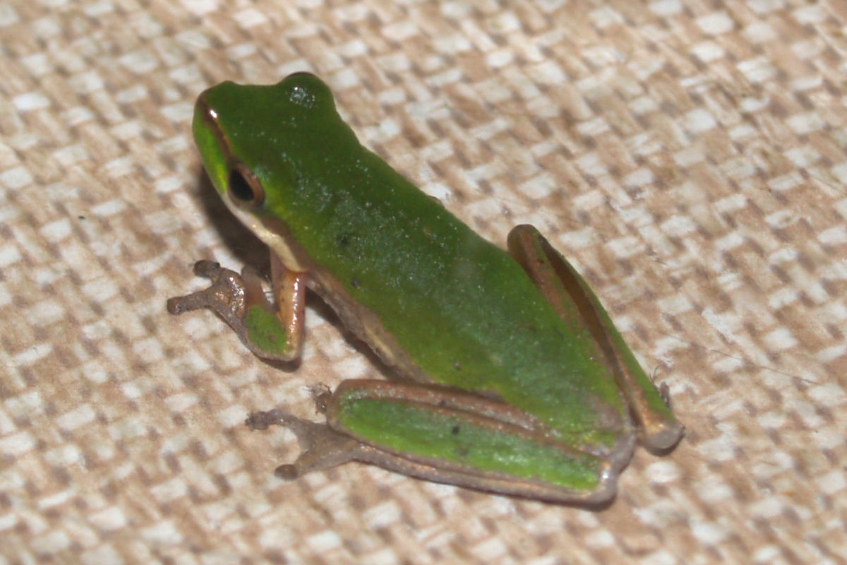 Northern Dwarf Tree Frog (Litoria xanthomera)